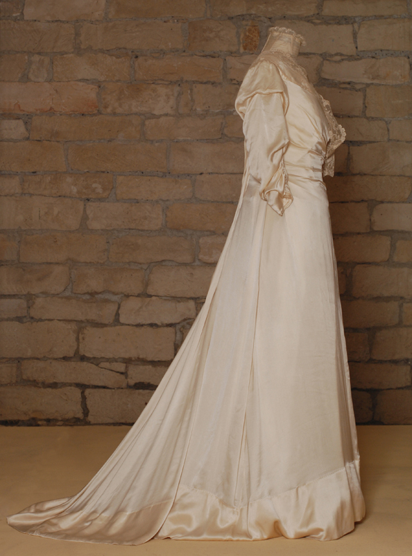 Cream silk gown by Sullivan, 1908